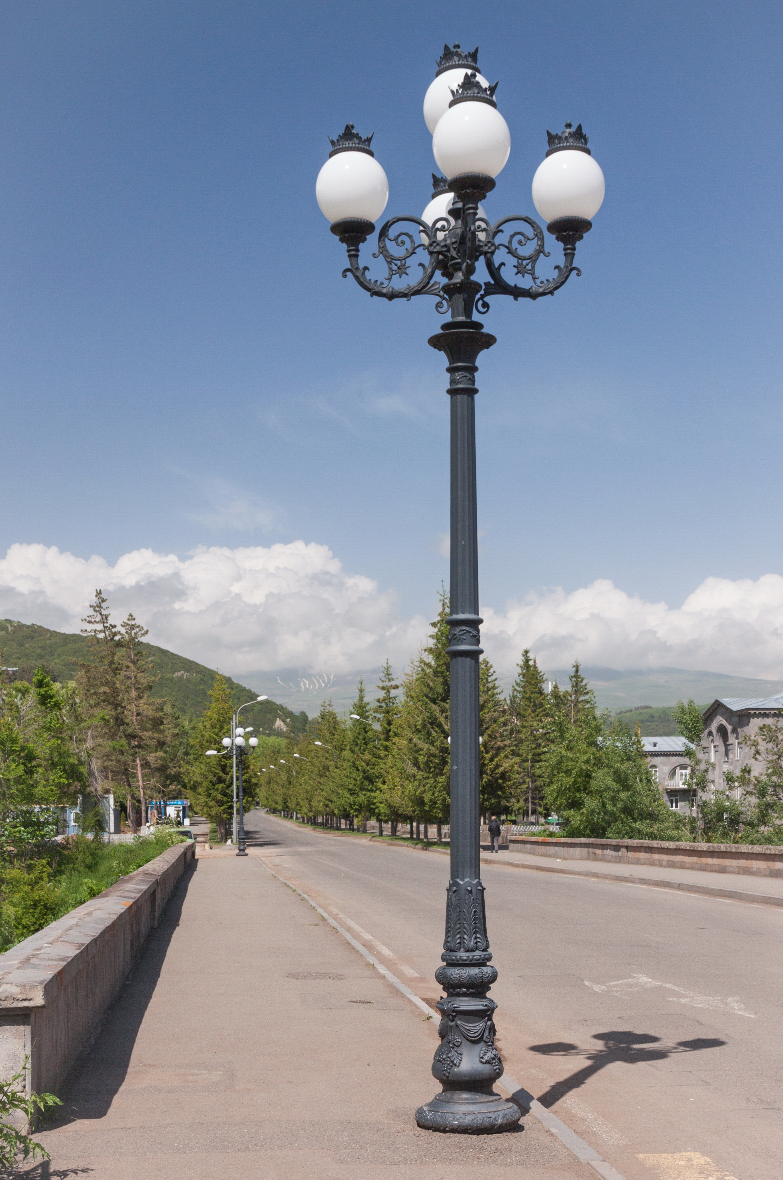 Street lamp. Jermuk, Vayots Dzor Province, Armenia.